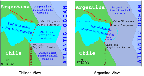 Two versions of the east mouth of the Strait of Magellan during the Beagle conflict. According to definition of the east limit of the Strait of Magellan, Chile gets a "Beach" at the Atlantic Ocean or Argentina gets the right to co-regulate the navigation in the Strait. English text.